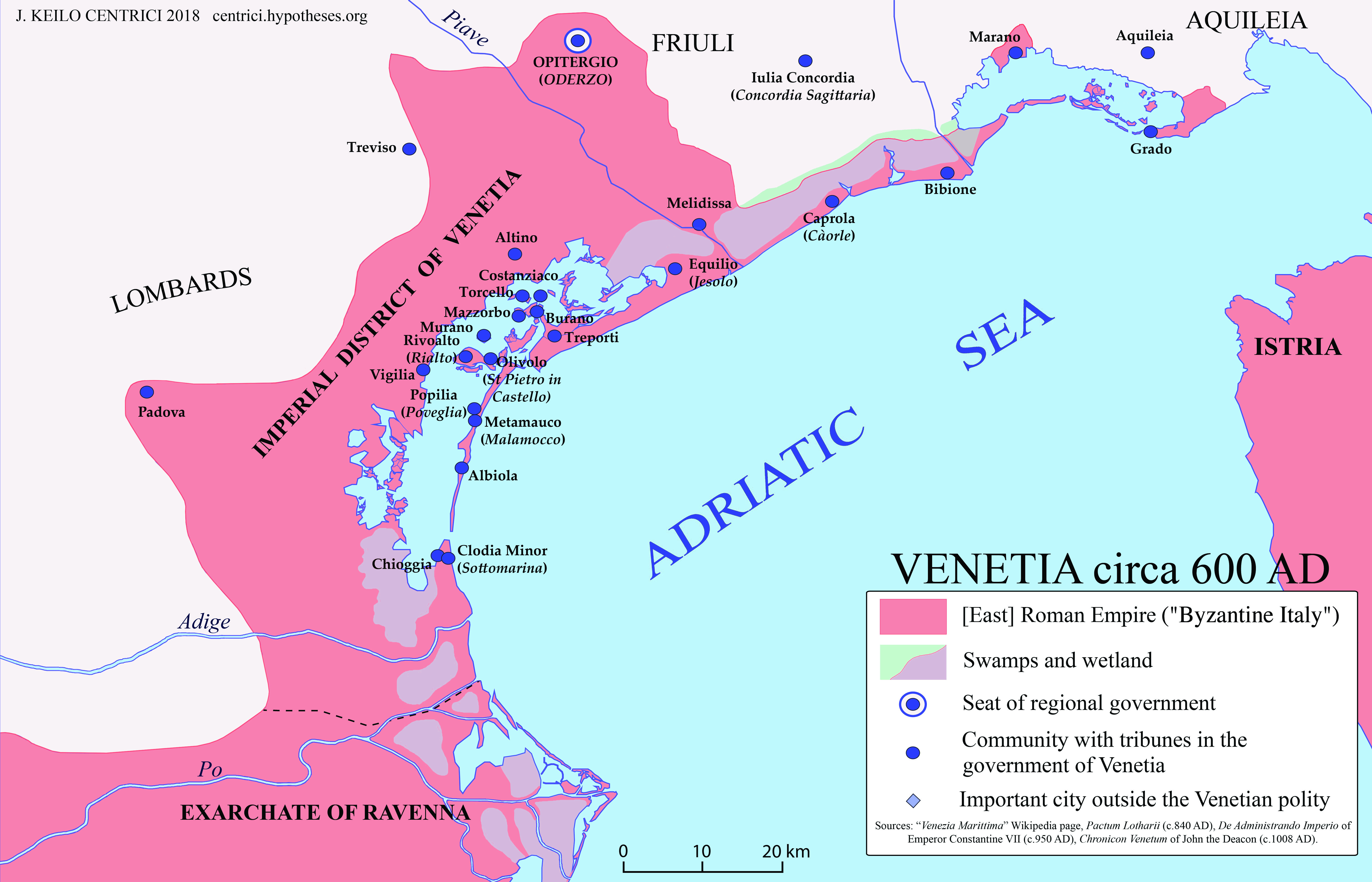 The political situation in Venetia, around the year 600 AD.